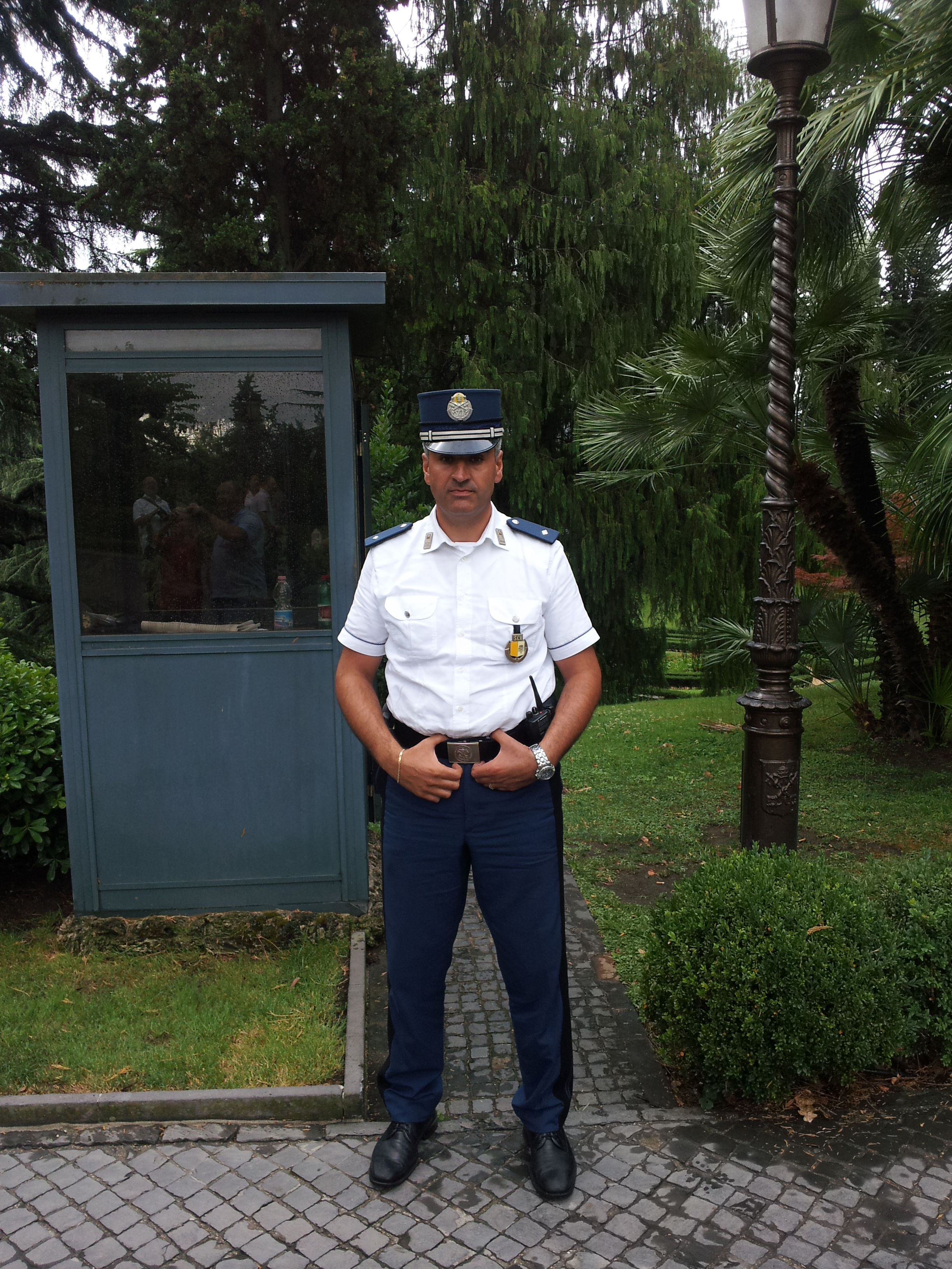 Gendarme (Police man) of the Vatican City standing guard in the Vatican Gardens (near the Replica of the Lourdes Grottos)